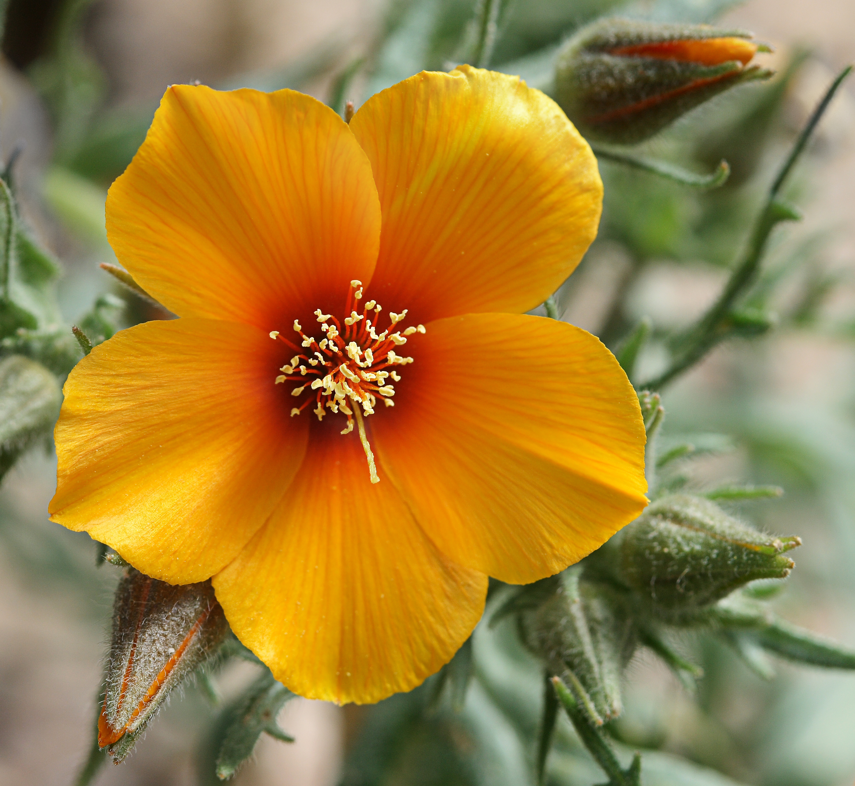 Mentzelia pectinata on the Carrizo Plain, California, USA.